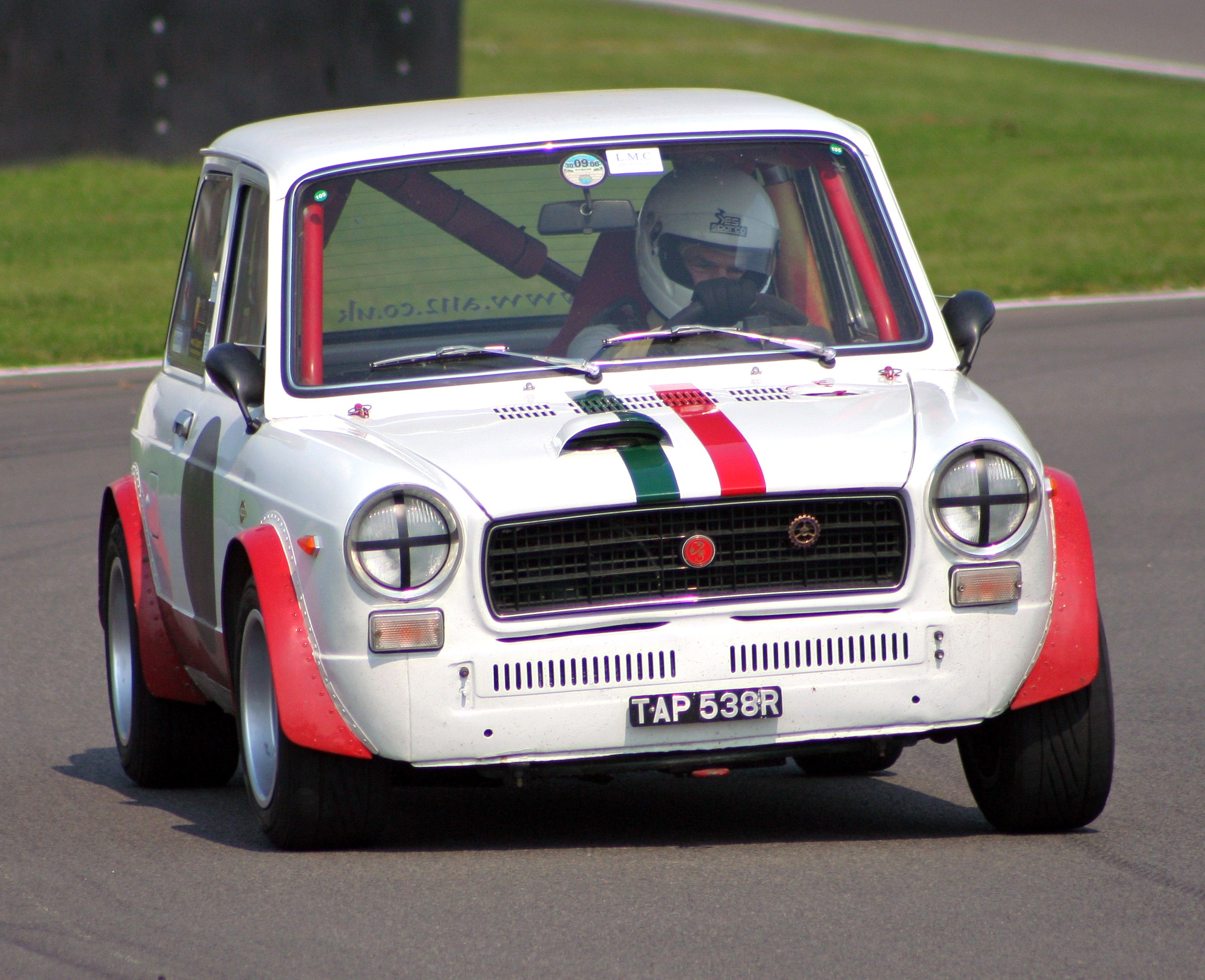 Abarth A112 in competition